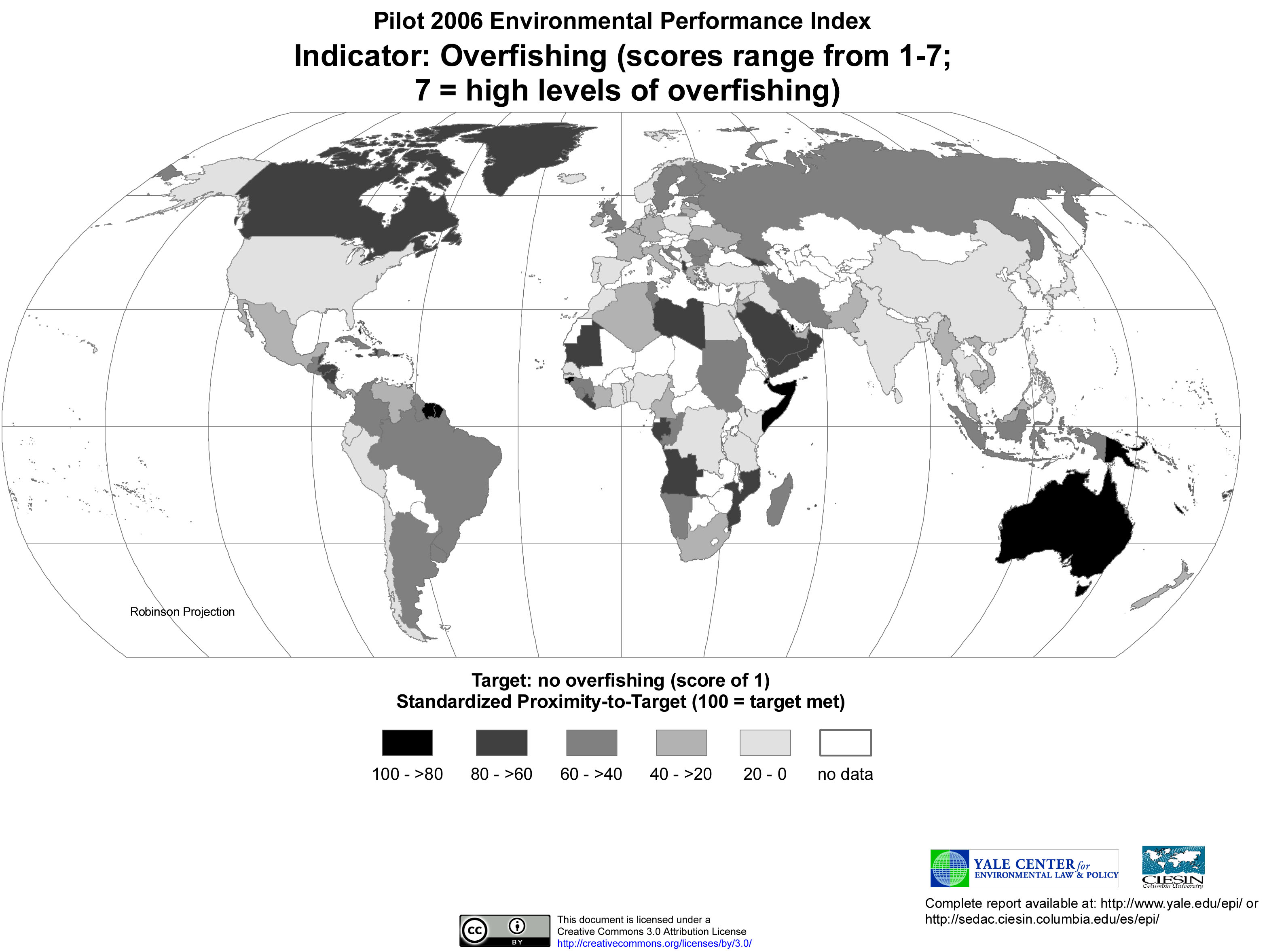 Overfishing scores range from 1-7; 7=high levels of overfishing